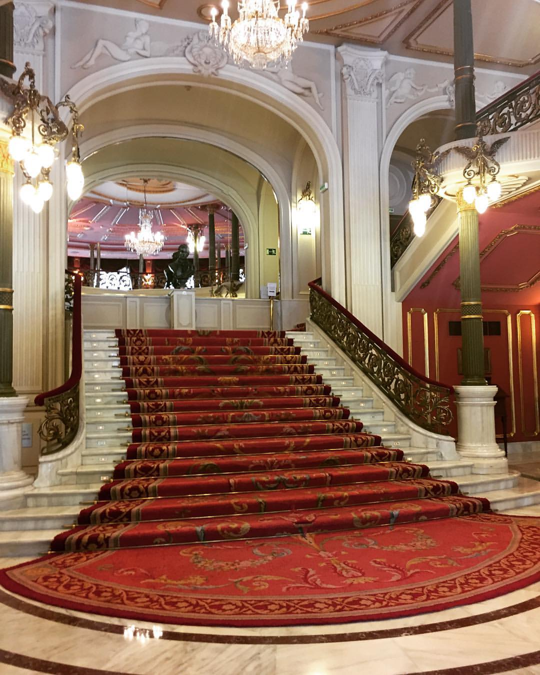 Just visiting some friends on my birthday.